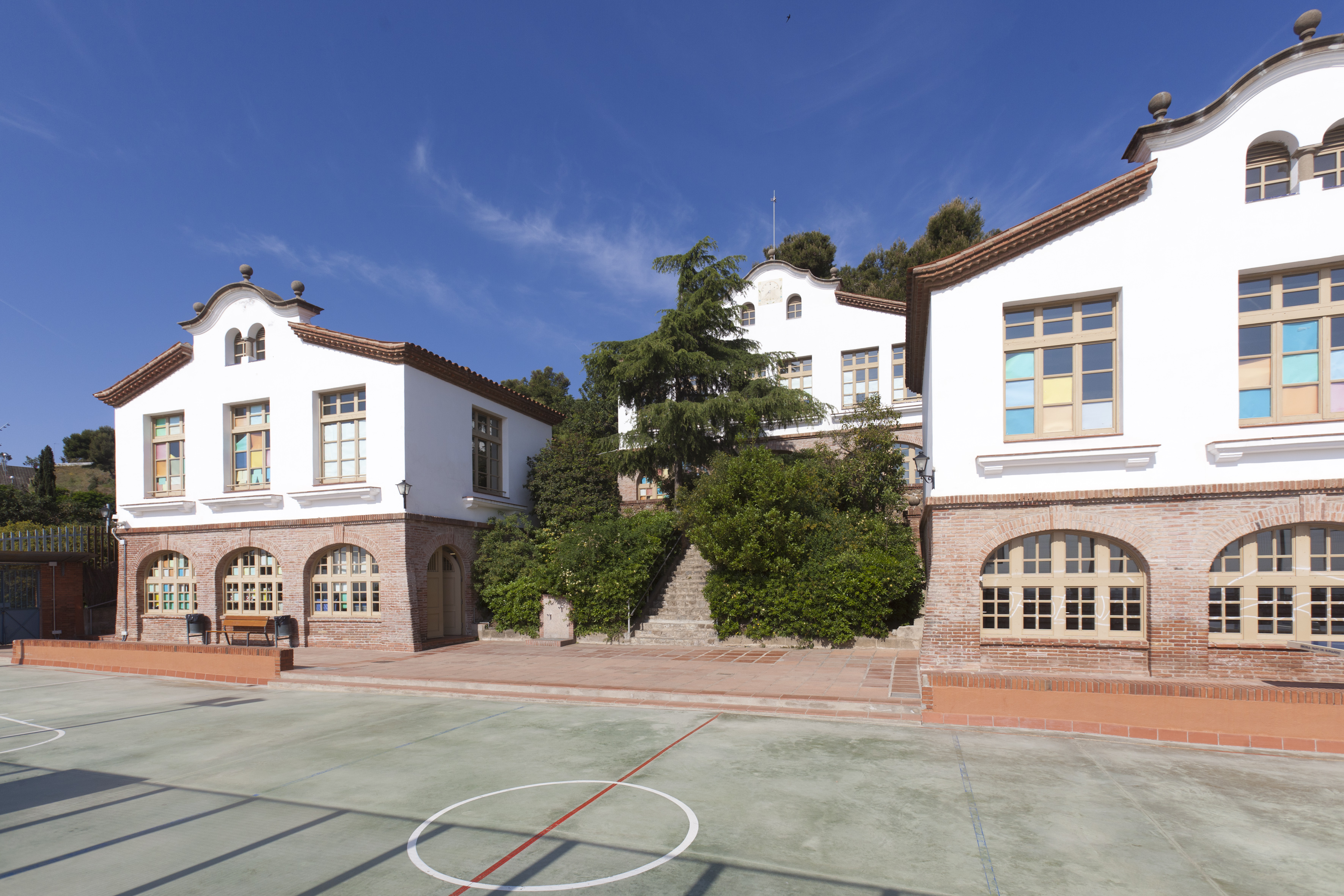 Historical Routes at the Horta-Guinardó District Administration in Barcelona This image was provided to Wikimedia Commons by the Horta-Guinardó District Administration in Barcelona as part of an ongoing cooperative project with Amical Viquipèdia. English | +/−